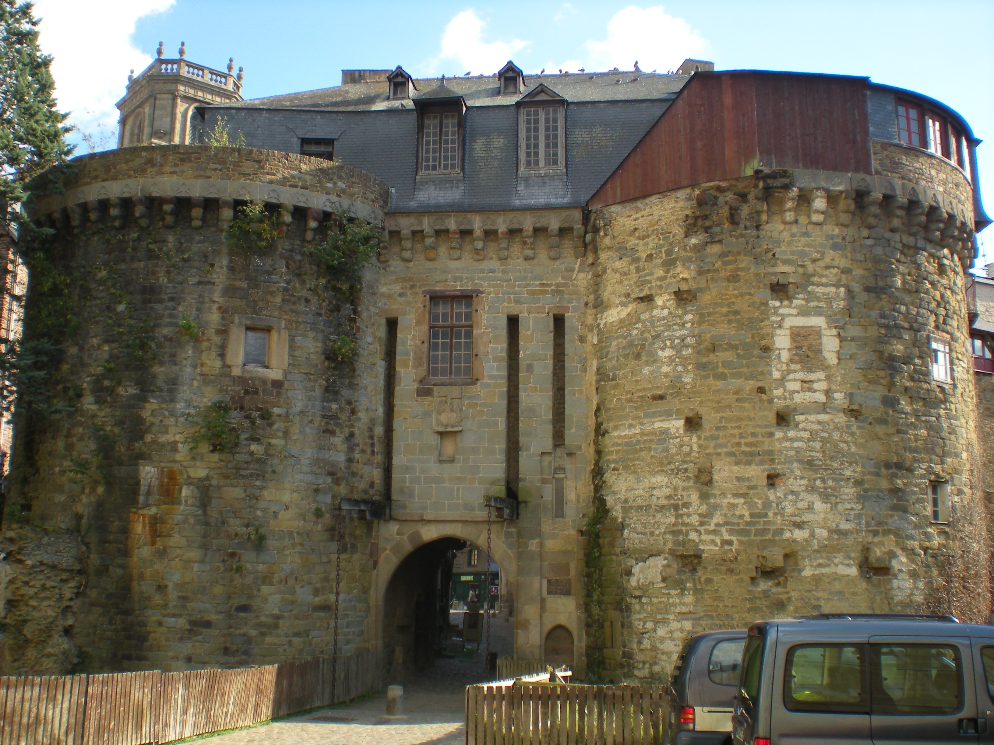 The Portes Mordelaises in Rennes.